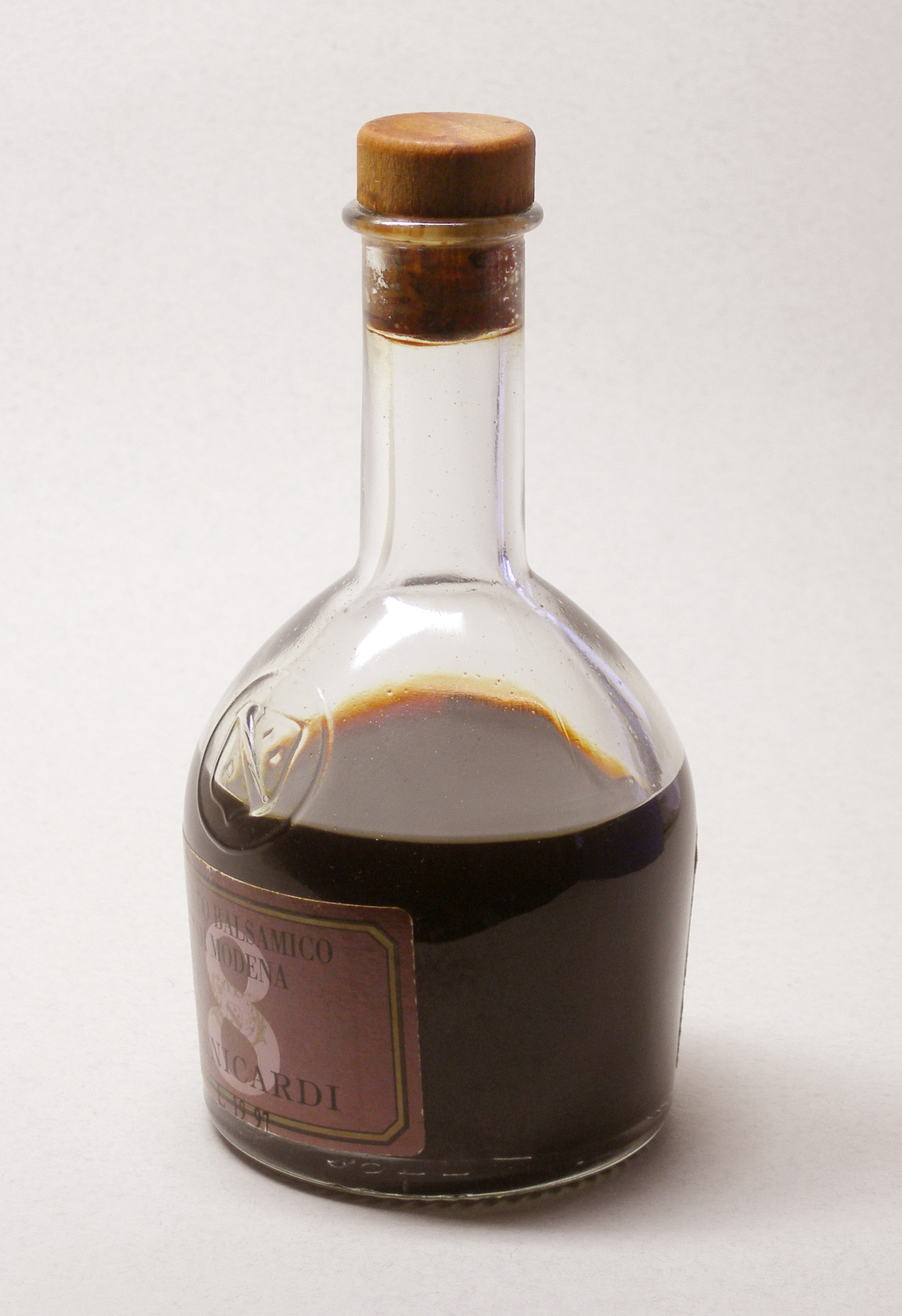 Eight years old Aceto balsamico di Modena. Own work.